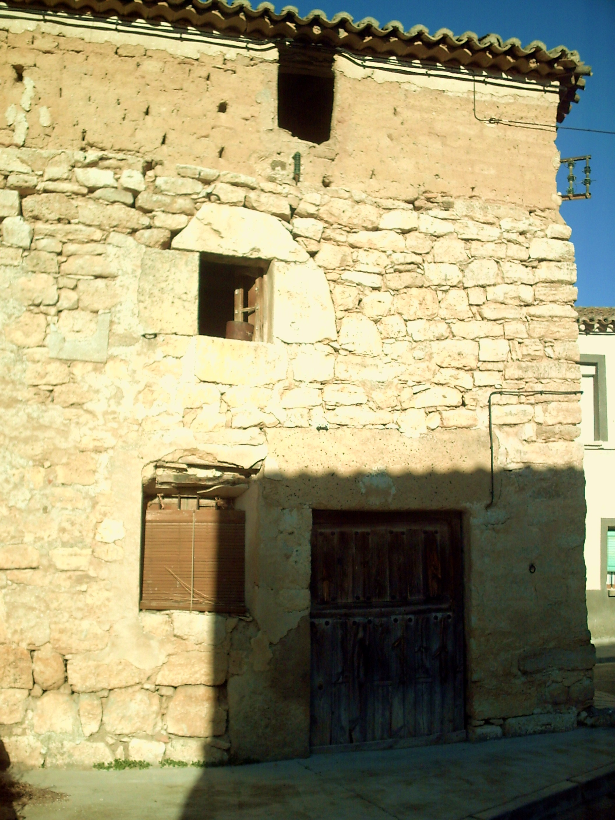 Casa típica (Valdecañas de Cerrato, Palencia).